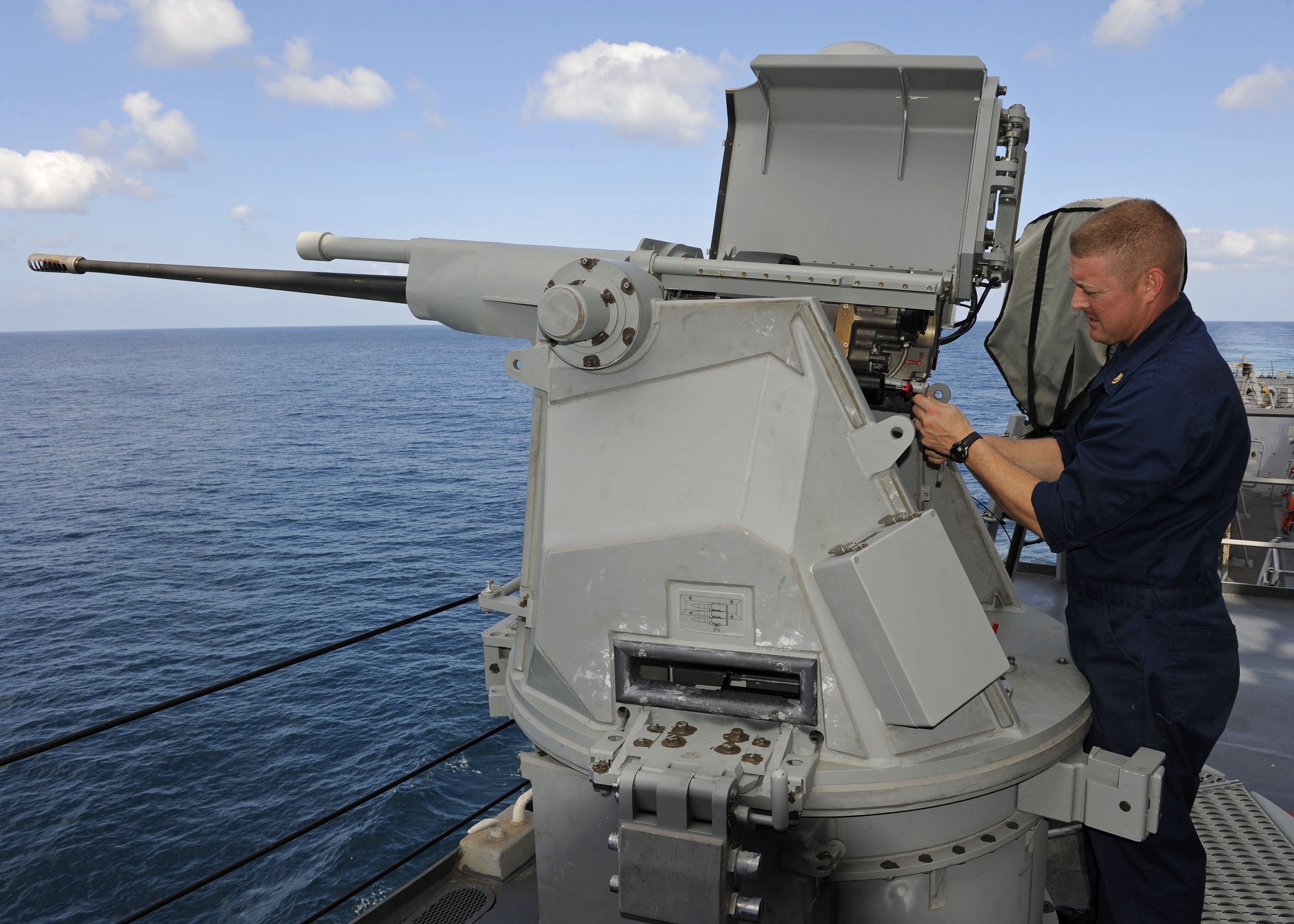 ARABIAN GULF (Jan. 3, 2012) Chief Gunner's Mate Dion Eisman performs a maintenance check on an MK 38 MOD 2 25mm machine gun system aboard the Arleigh Burke-class guided-missile destroyer USS Dewey (DDG 105) in preparation for a live-fire exercise. USS Dewey is deployed to the U.S. 5th Fleet area of responsibility conducting maritime security operations. (U.S. Navy photo by Mass Communication Specialist 3rd Class Joshua Keim/Released)